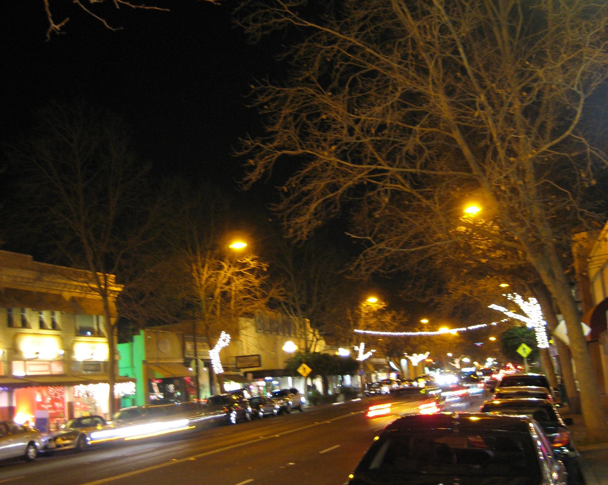 Willow Glen, California at Night.